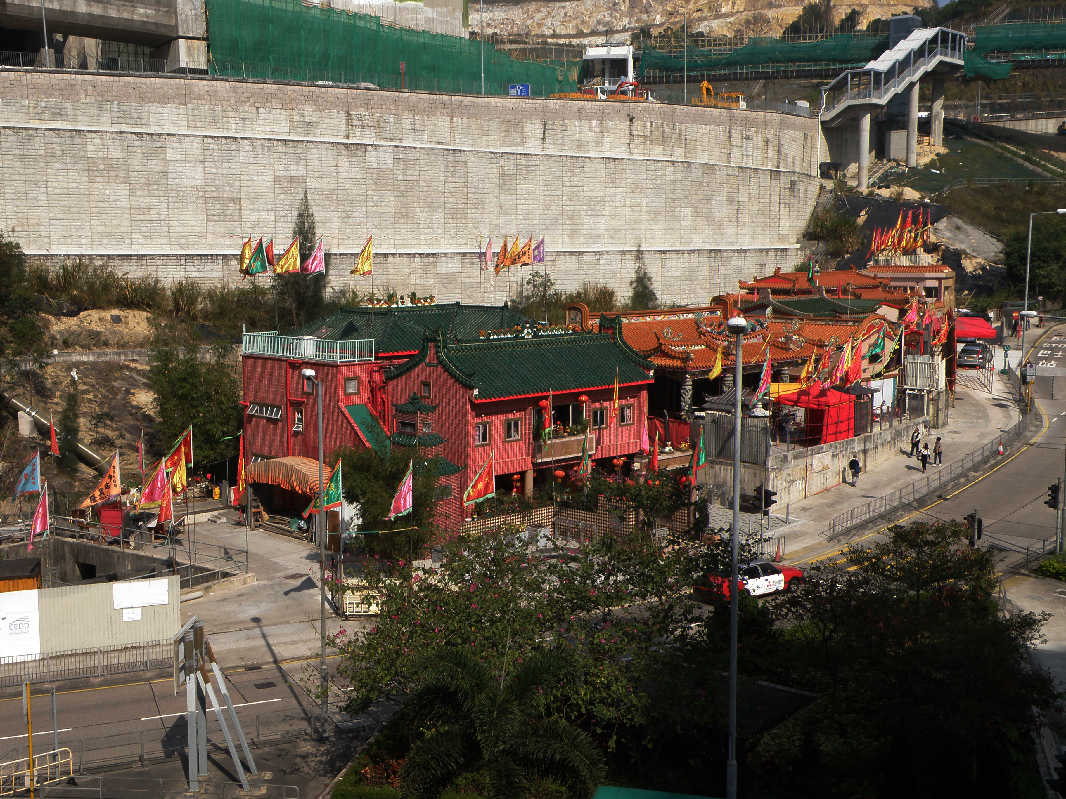 Tai Sing Temple in Sau Mau Ping, Hong Kong.